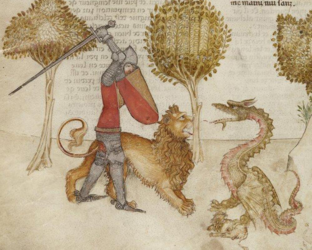 An illumination from the 14th-century Italian copy (BNF Français 343 Queste del Saint Graal / Tristan de Léonois).